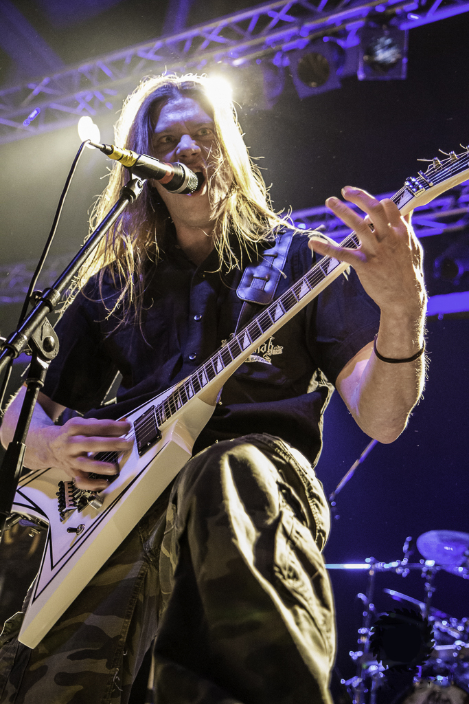 Pekka Kokko, lead singer for Kalmah, performing at Paganfest 2013 in Würzburg, Germany.